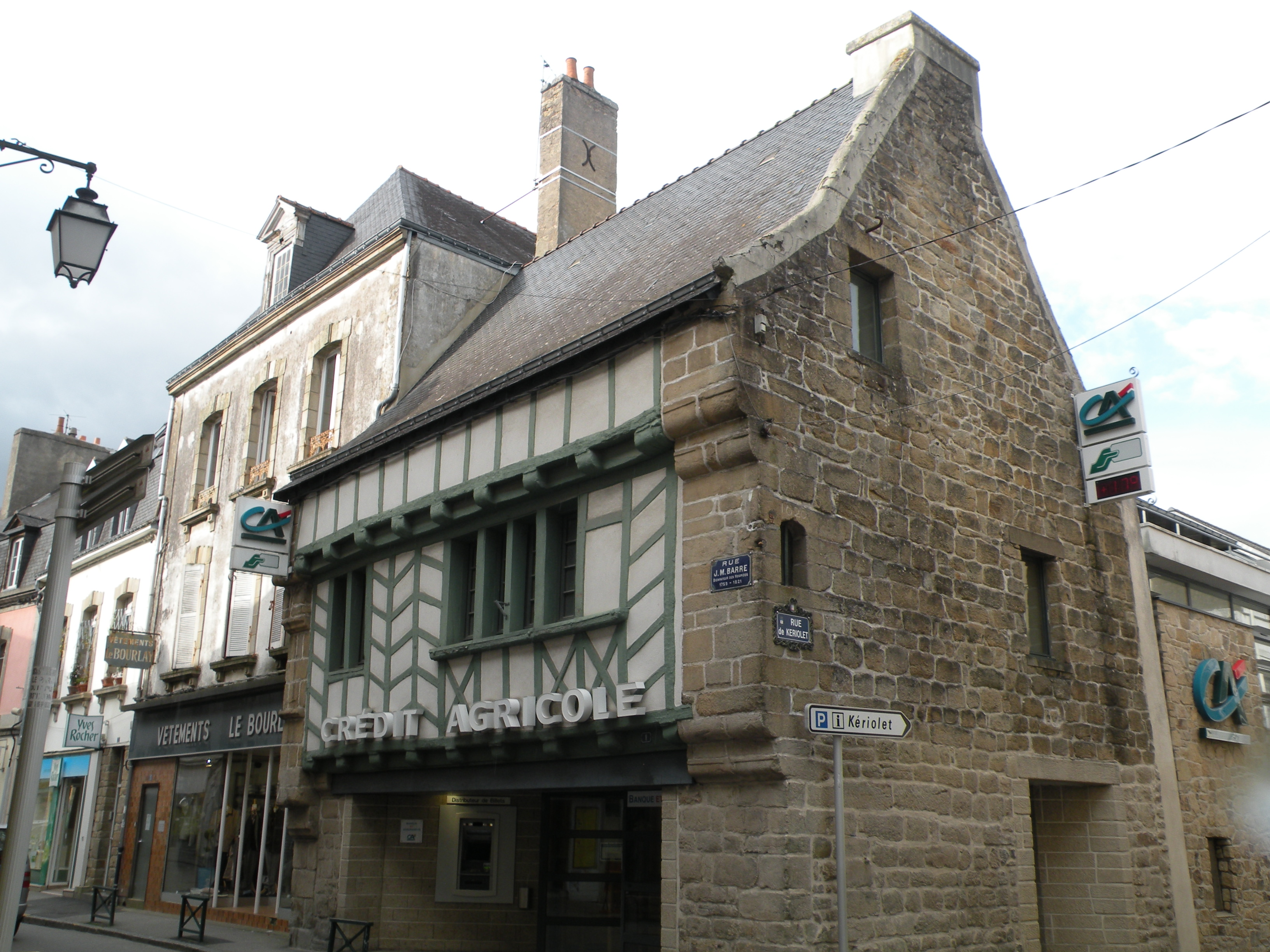 House of Auray built in 1620.